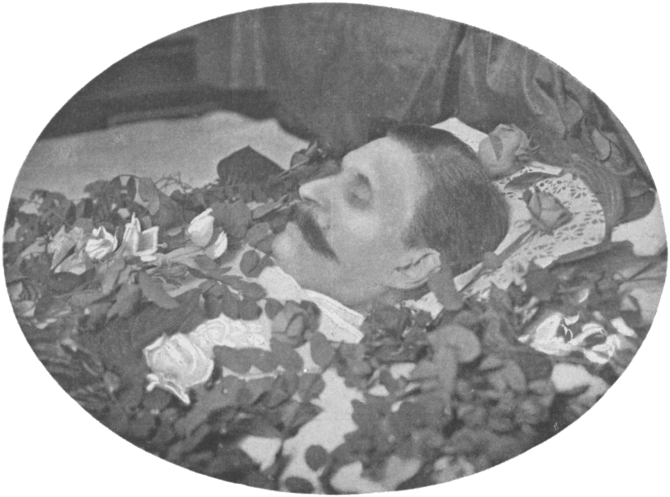 Johann Strauss the Younger (1825-1899), Austrian composer